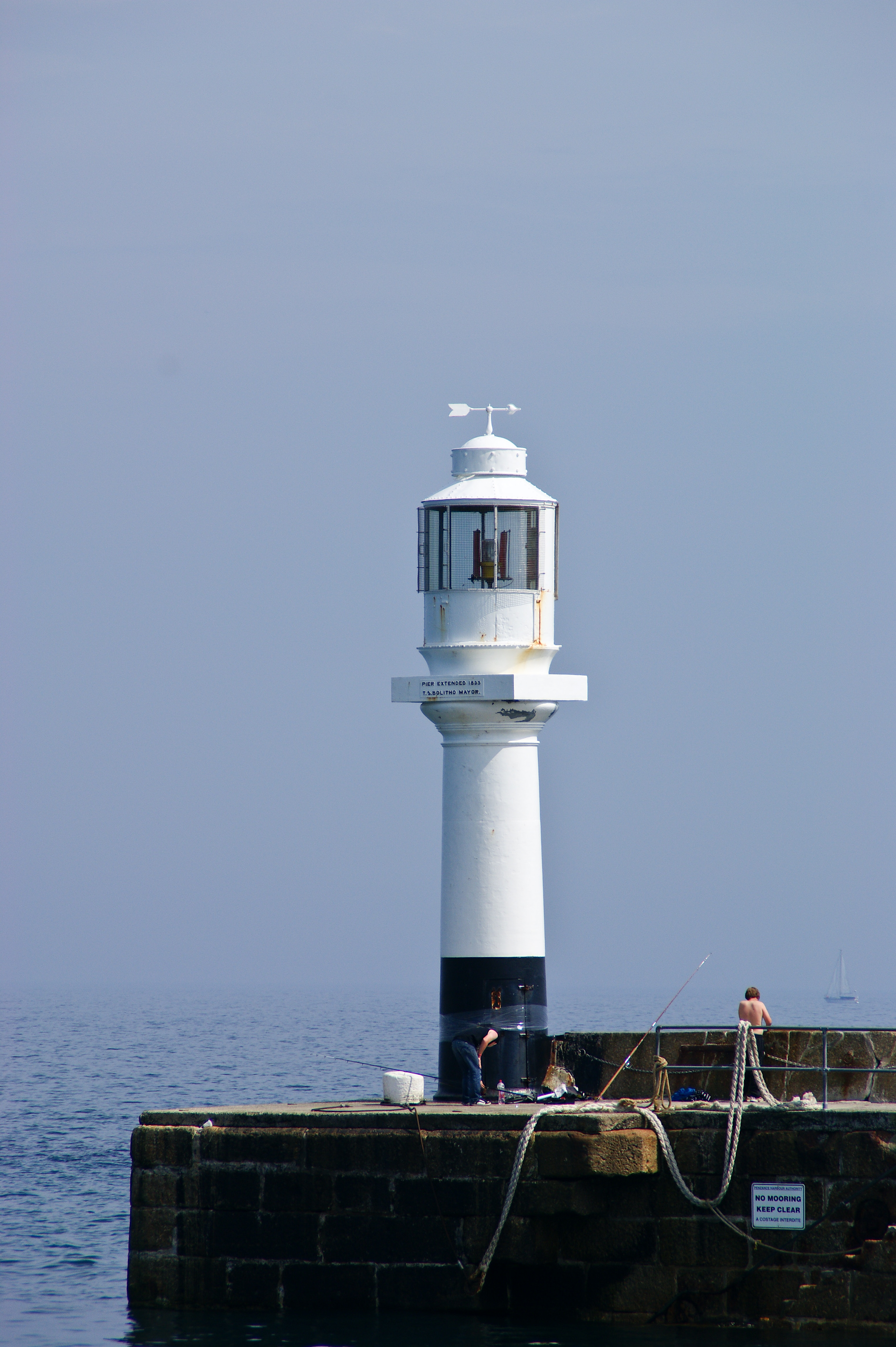 Penzance South Pier lighthouse in Cornwall, UK.